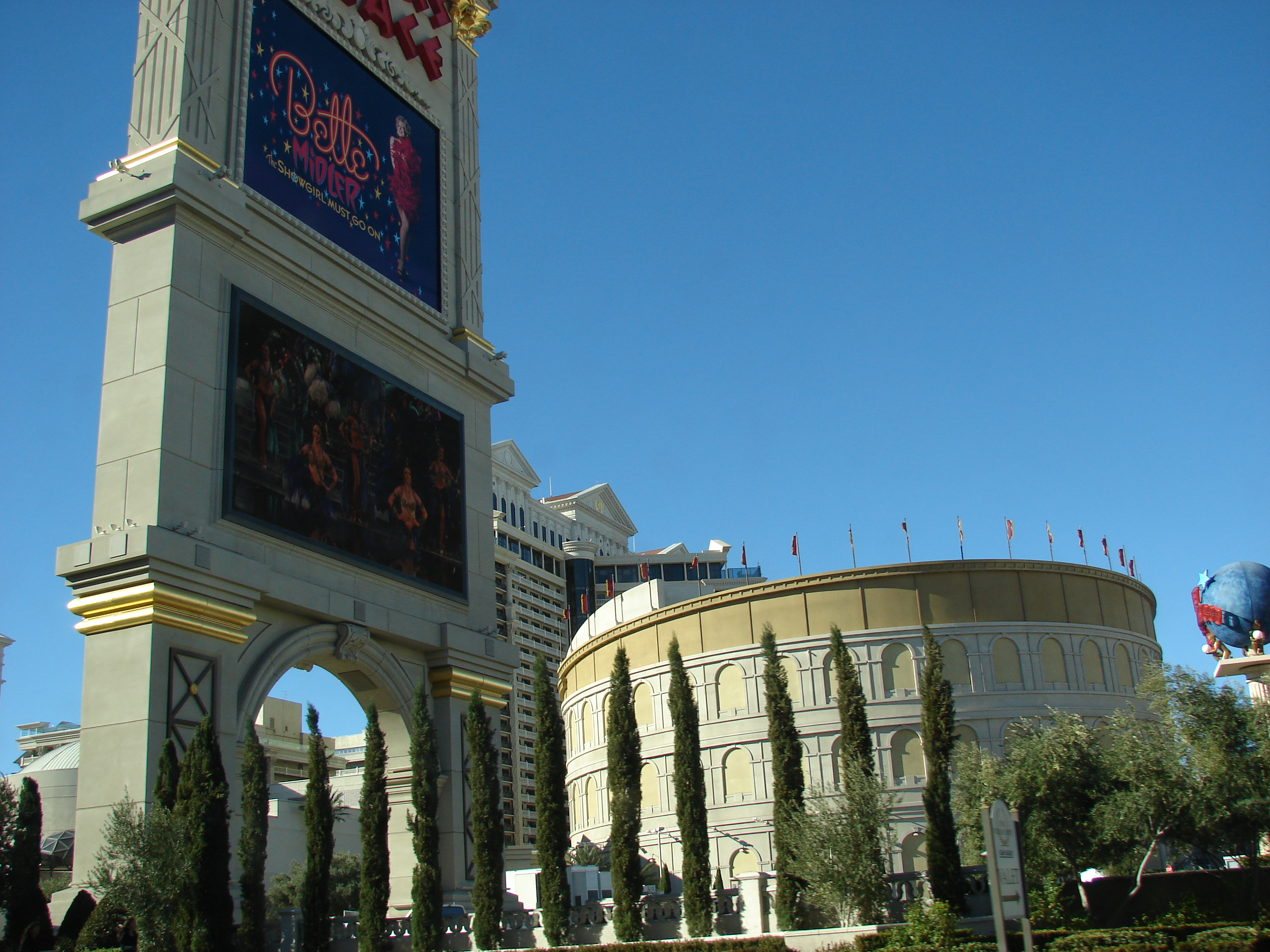 Olea europaea subsp. europaea (habit). Location: Nevada, Caesars Palace Las Vegas